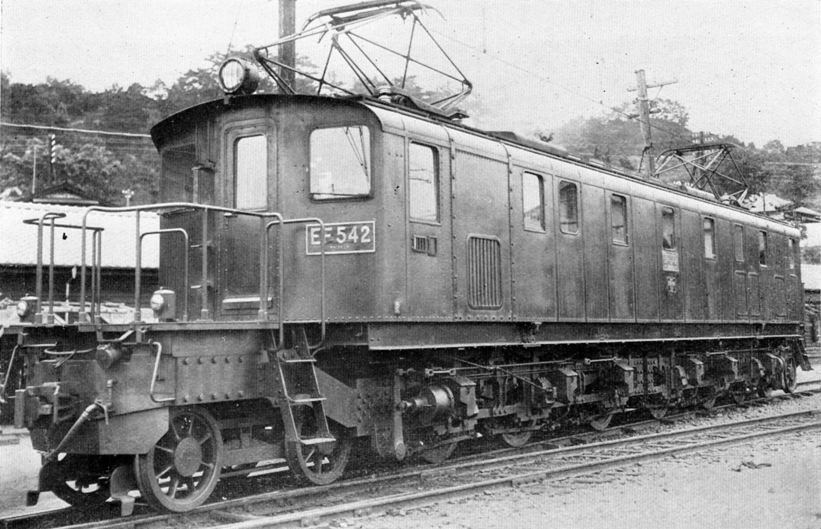 Picture of JGR's EF54 type electric locomotive